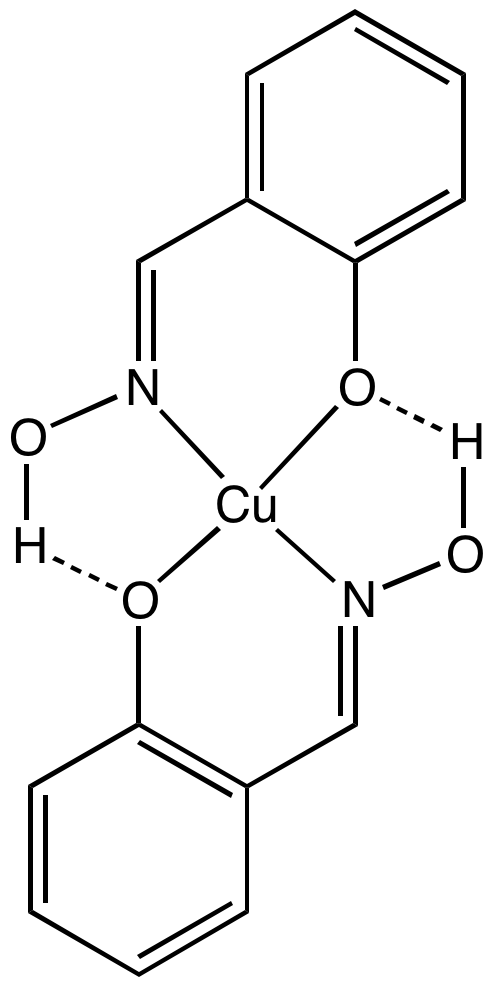 structure of copper(II) derivative of the conjugate base of salicylaldoxime